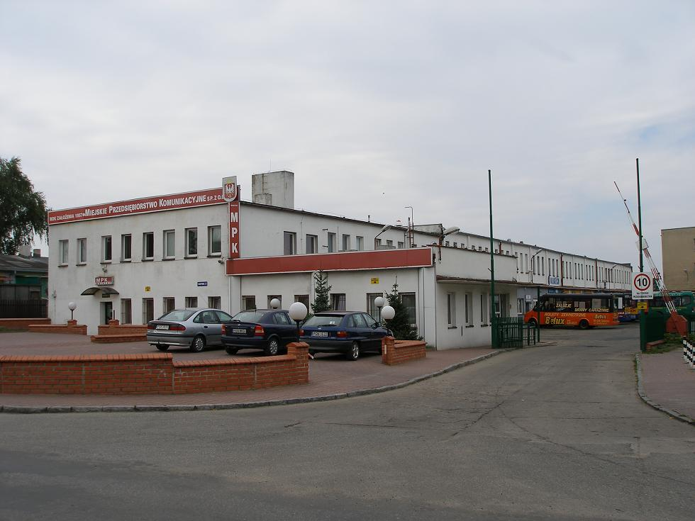 MPK Gniezno in Gniezno, Poland.